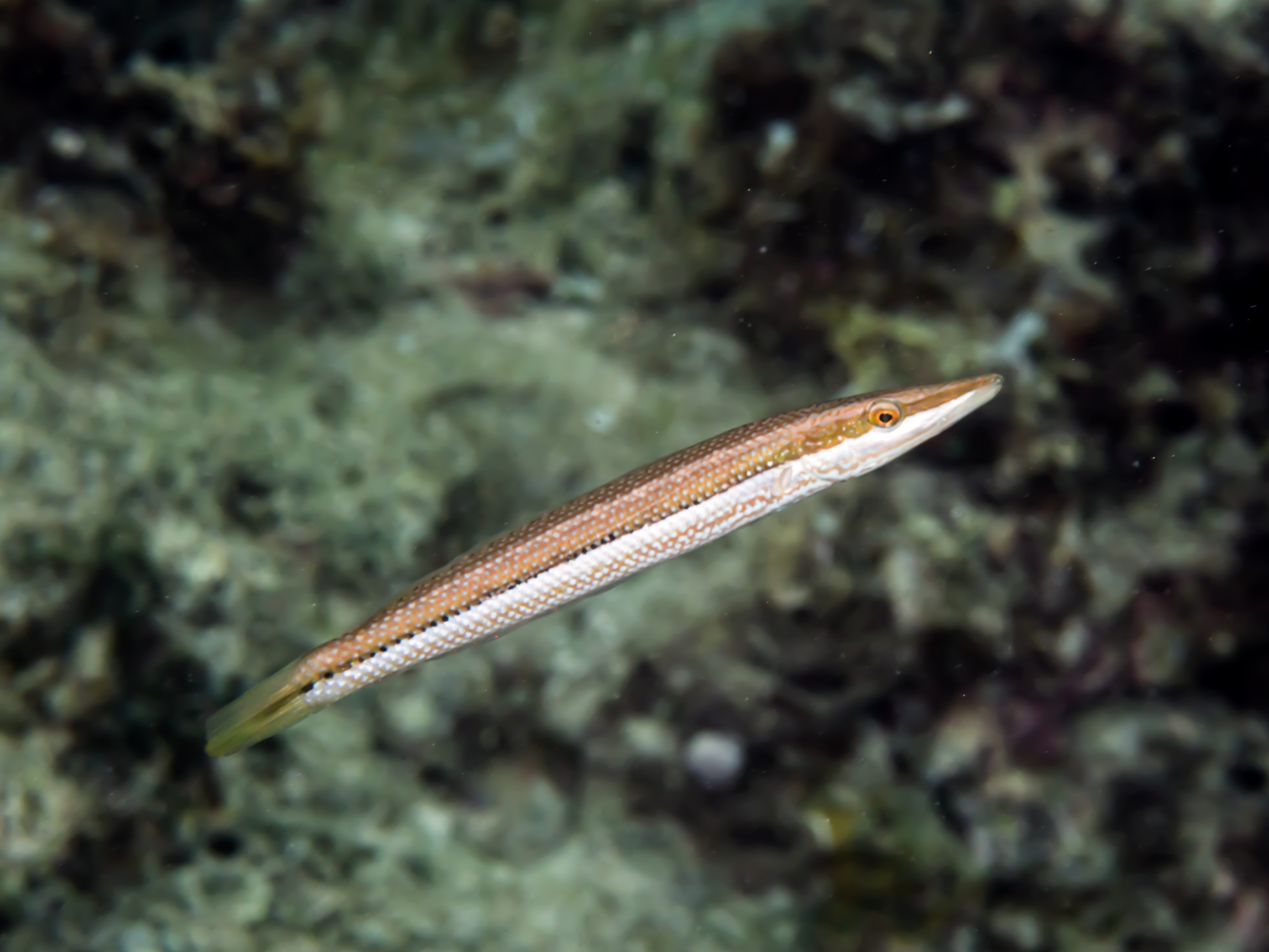 Romblon, Philippines - Cigar wrasse juvenile (Cheilio inermis)